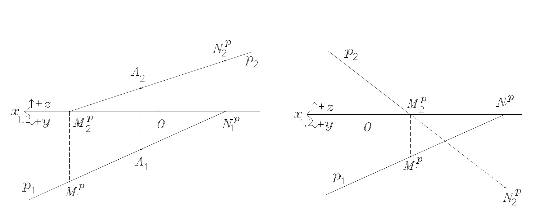 Изобразяване на права